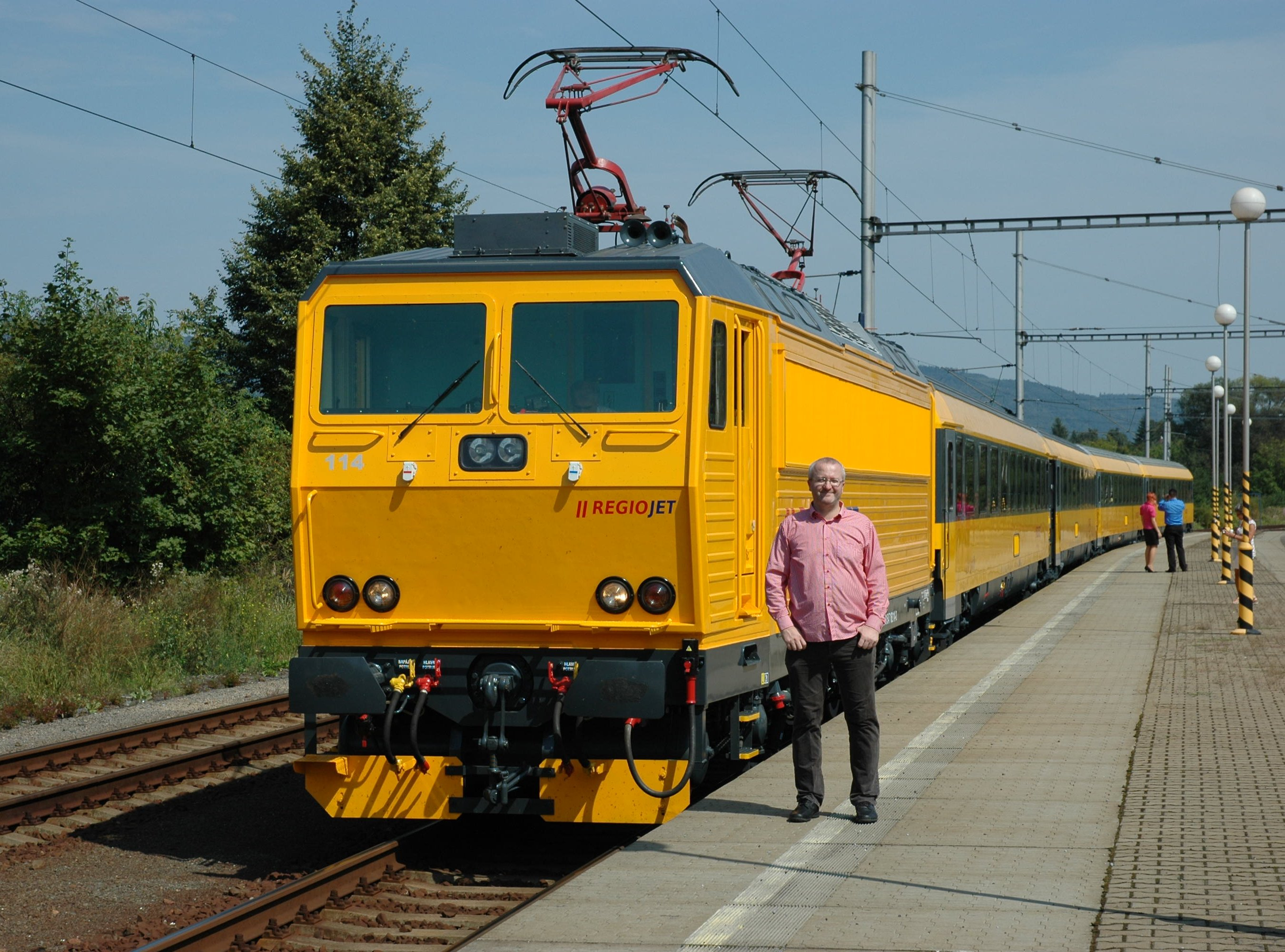 Radim Jančura (owner of the Student Agency company, which is parent company of RegioJet railway operator) and 162.114 locomotive of RegioJet, Lipník nad Bečvou, Czech Republic